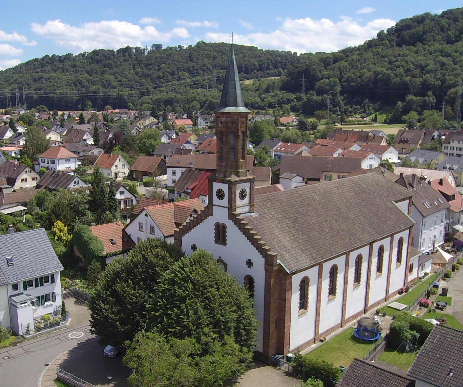 Aerial Viea of the church Immaculate Conception in Höllstein in southern Baden-Württemberg, Germany.